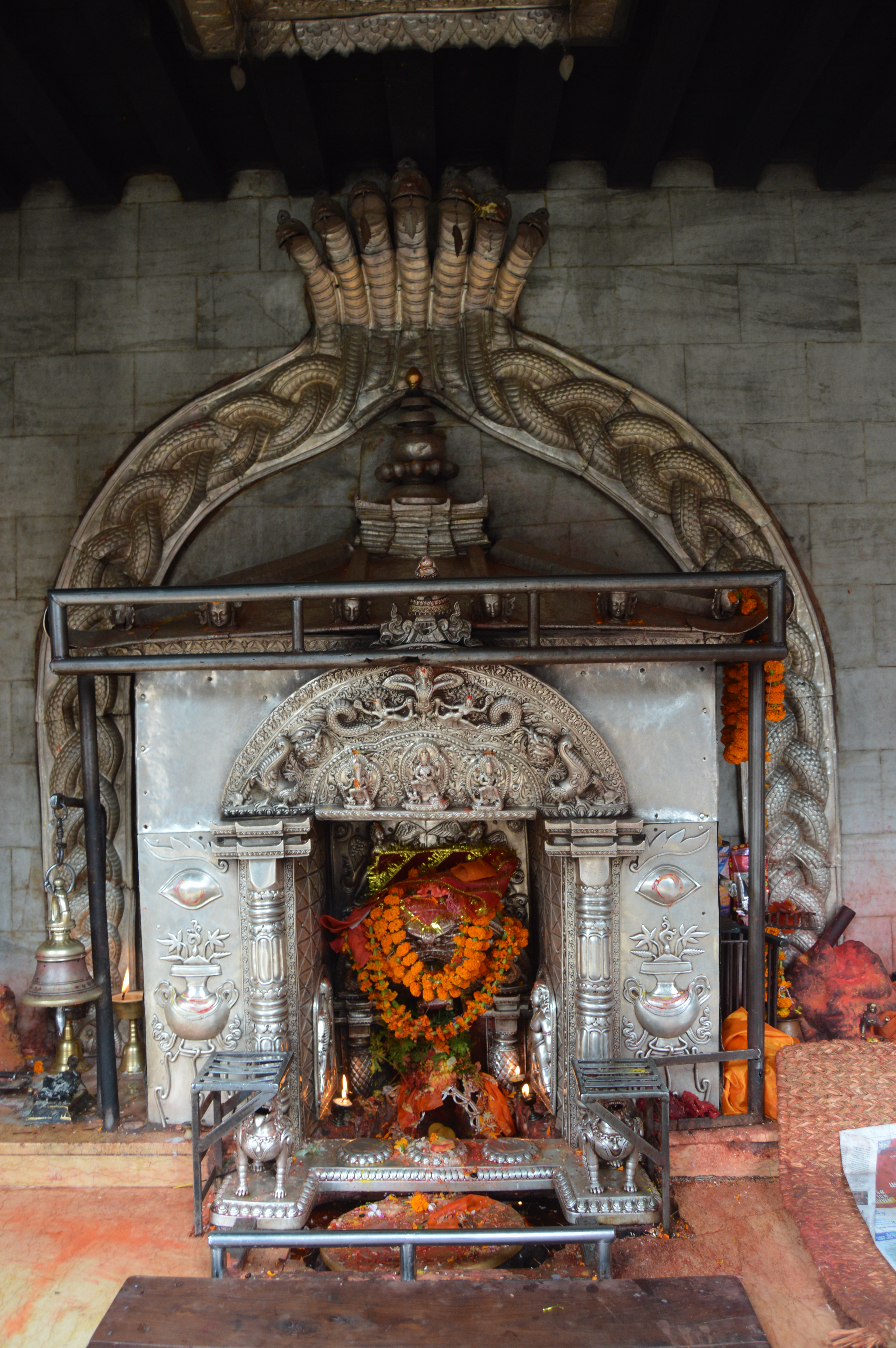 Kumbheshwar Temple (Mahadev)